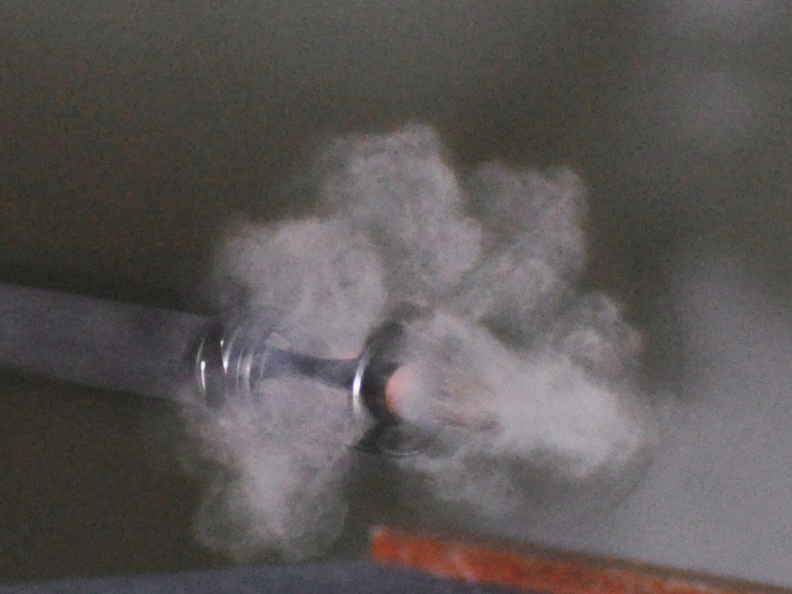 9mm bullet exiting an AR15 flame suppressor